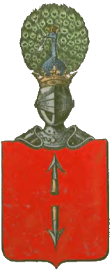 Coat of arms Bogoria from Herbarz rodzin królestwa polskiego najwyżej zatwierdzony by Nikołaj Pawliszczew